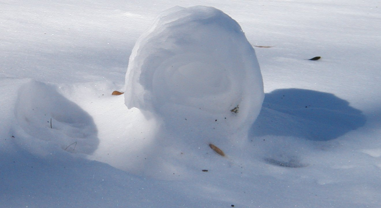 A picture of a snow roller near Cincinnati.